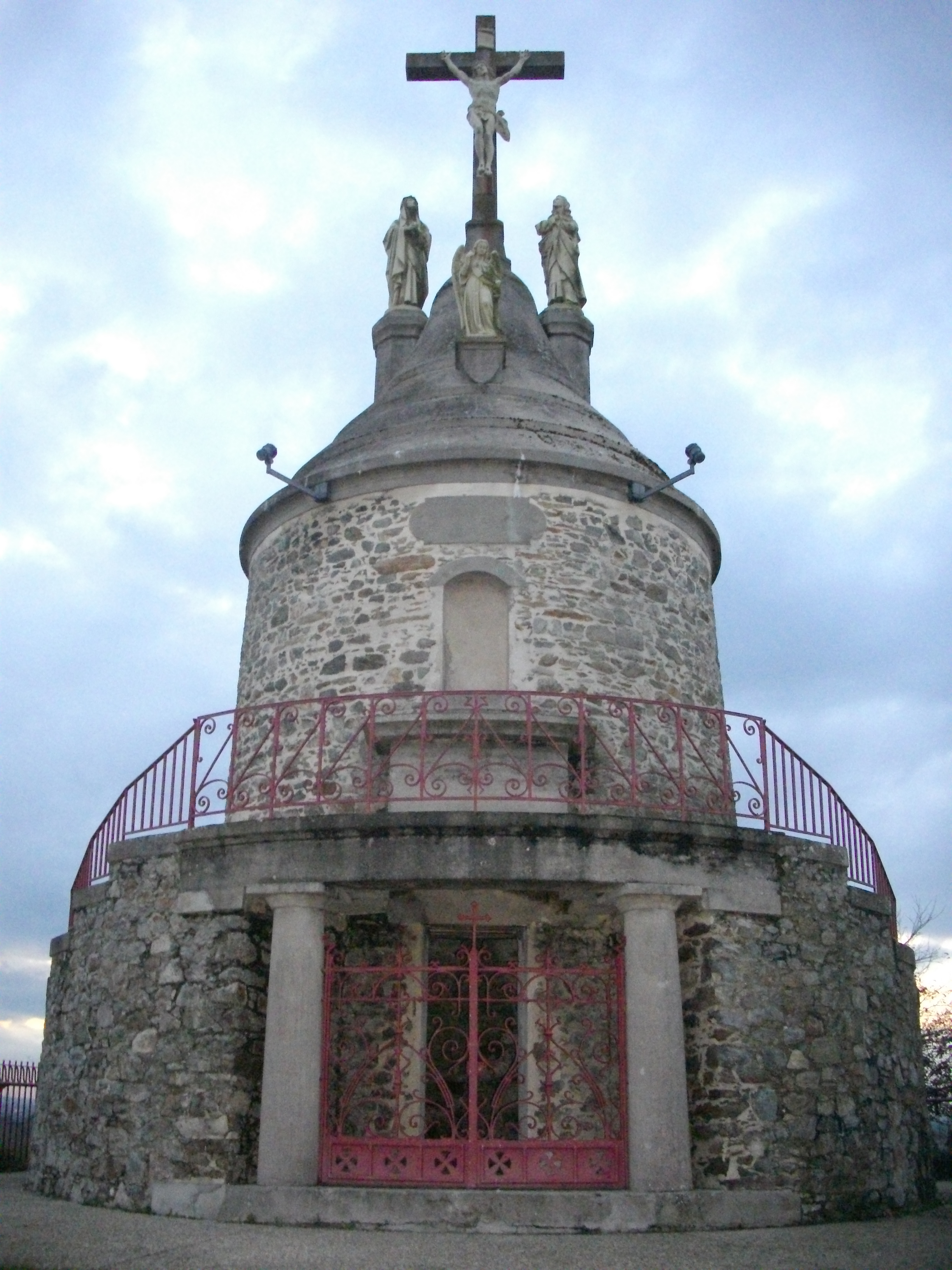 Mont-Juillet calvary in Les Touches (Loire-Atlantique, France)